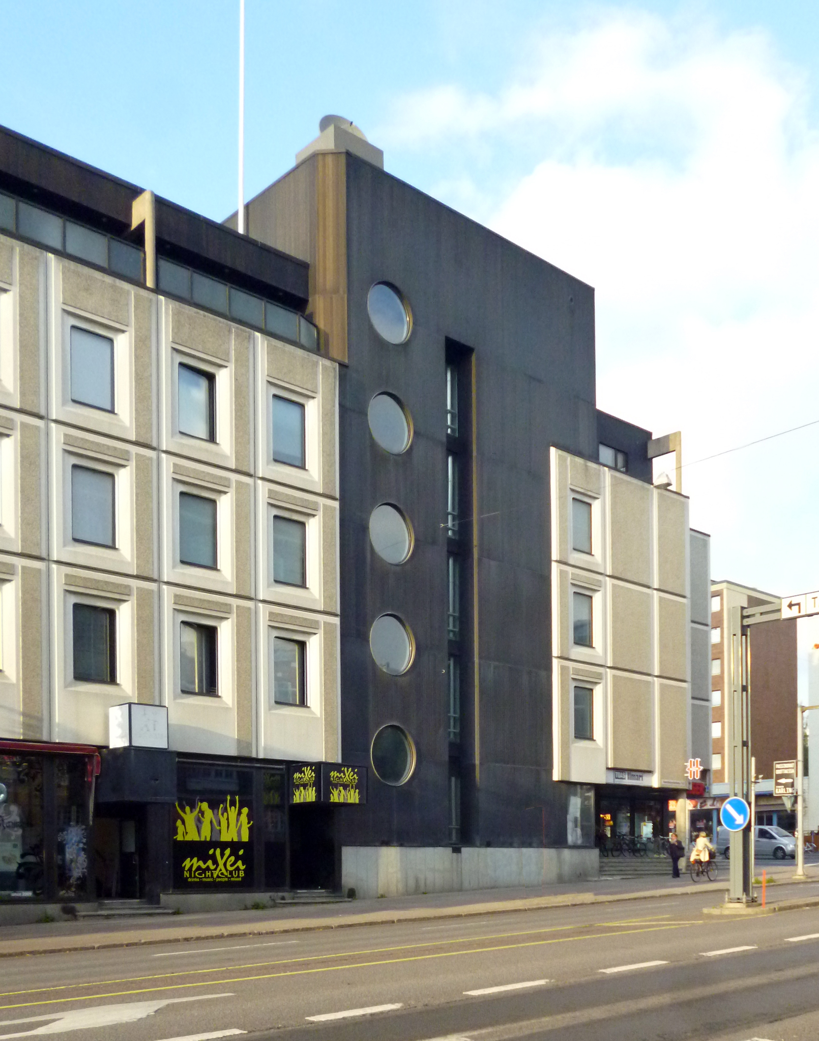 STS Bank, Tampere, Finland, Sept 2014.jpg